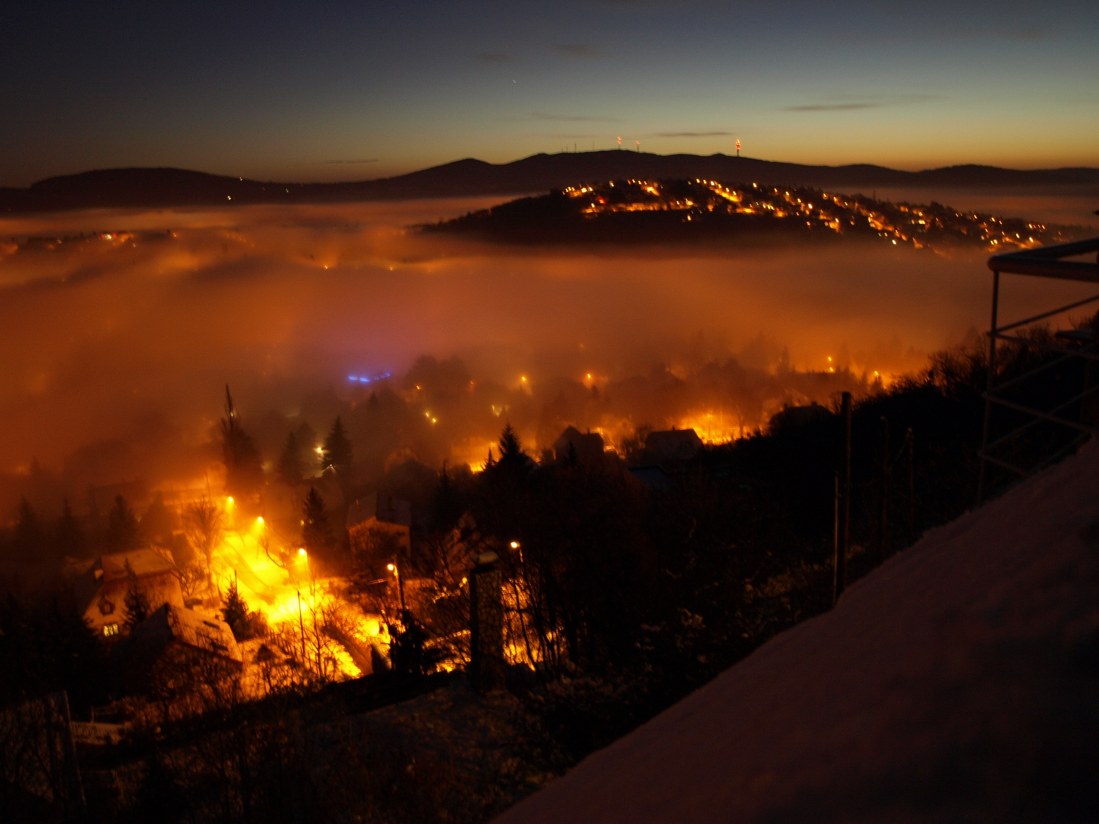 Fog in Máriaremete, Budapest, Hungary